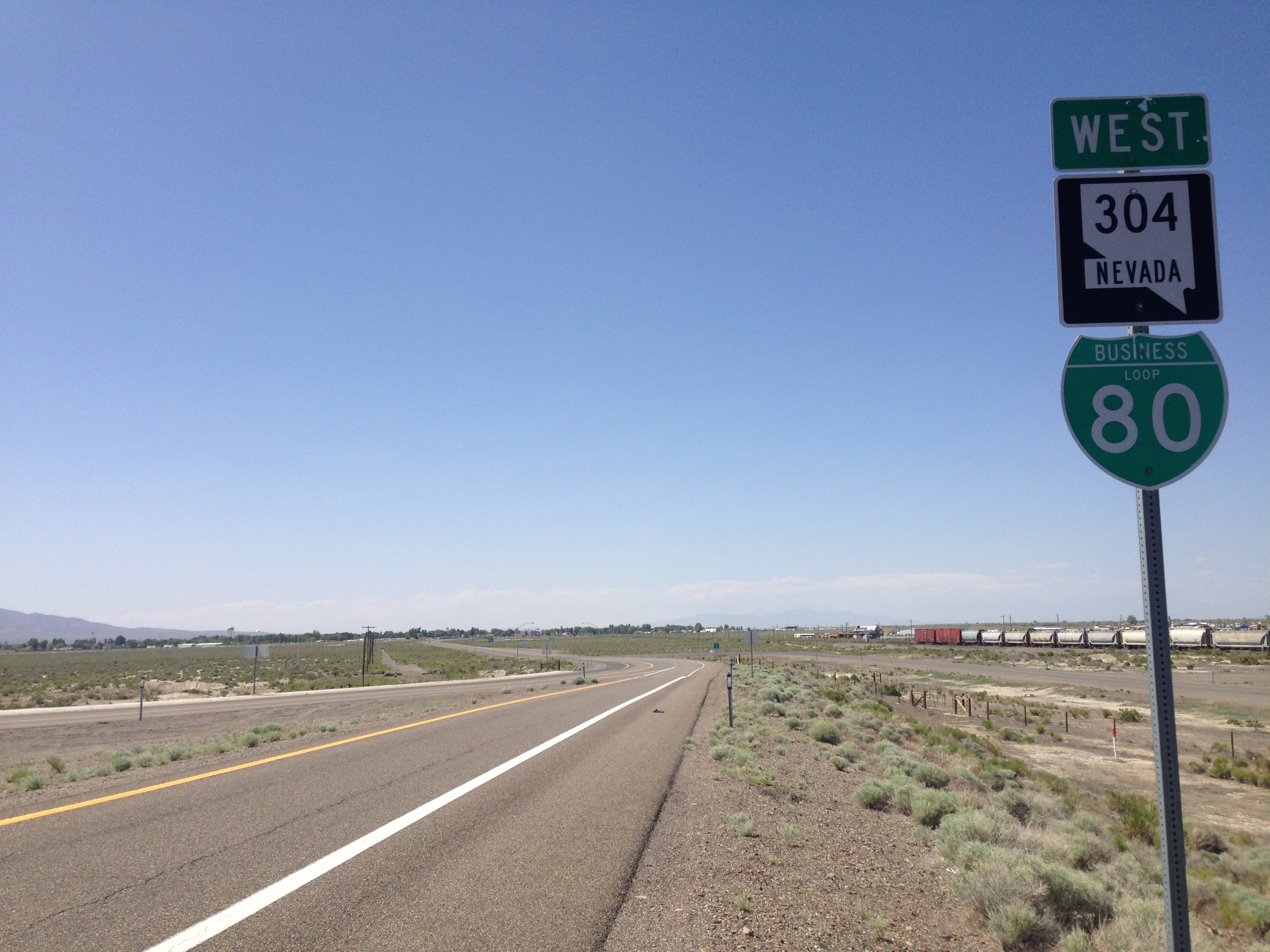 Signs at the east end of westbound Nevada State Route 304 in Battle Mountain, Nevada